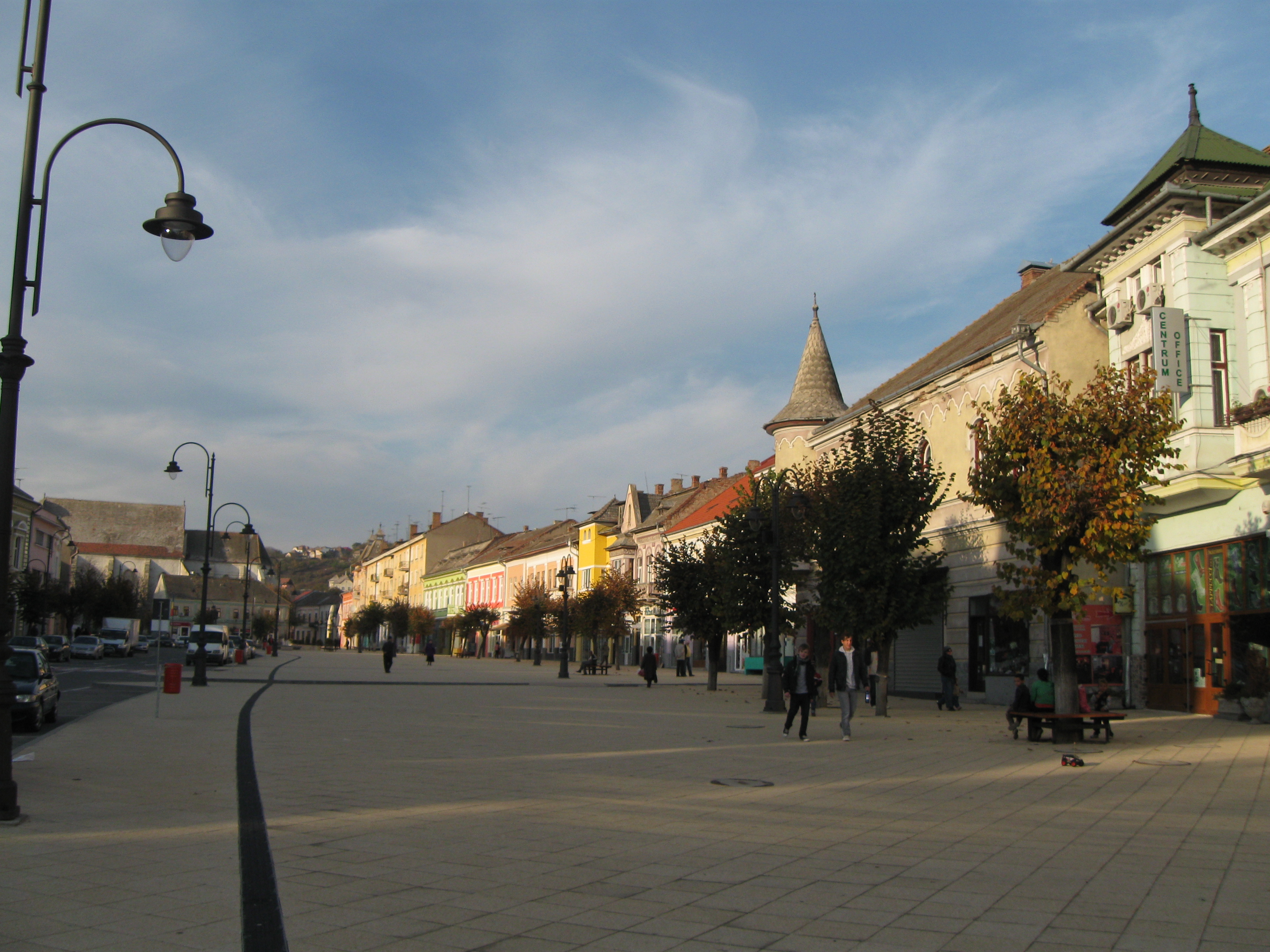 Inner City of Turda (Romania)